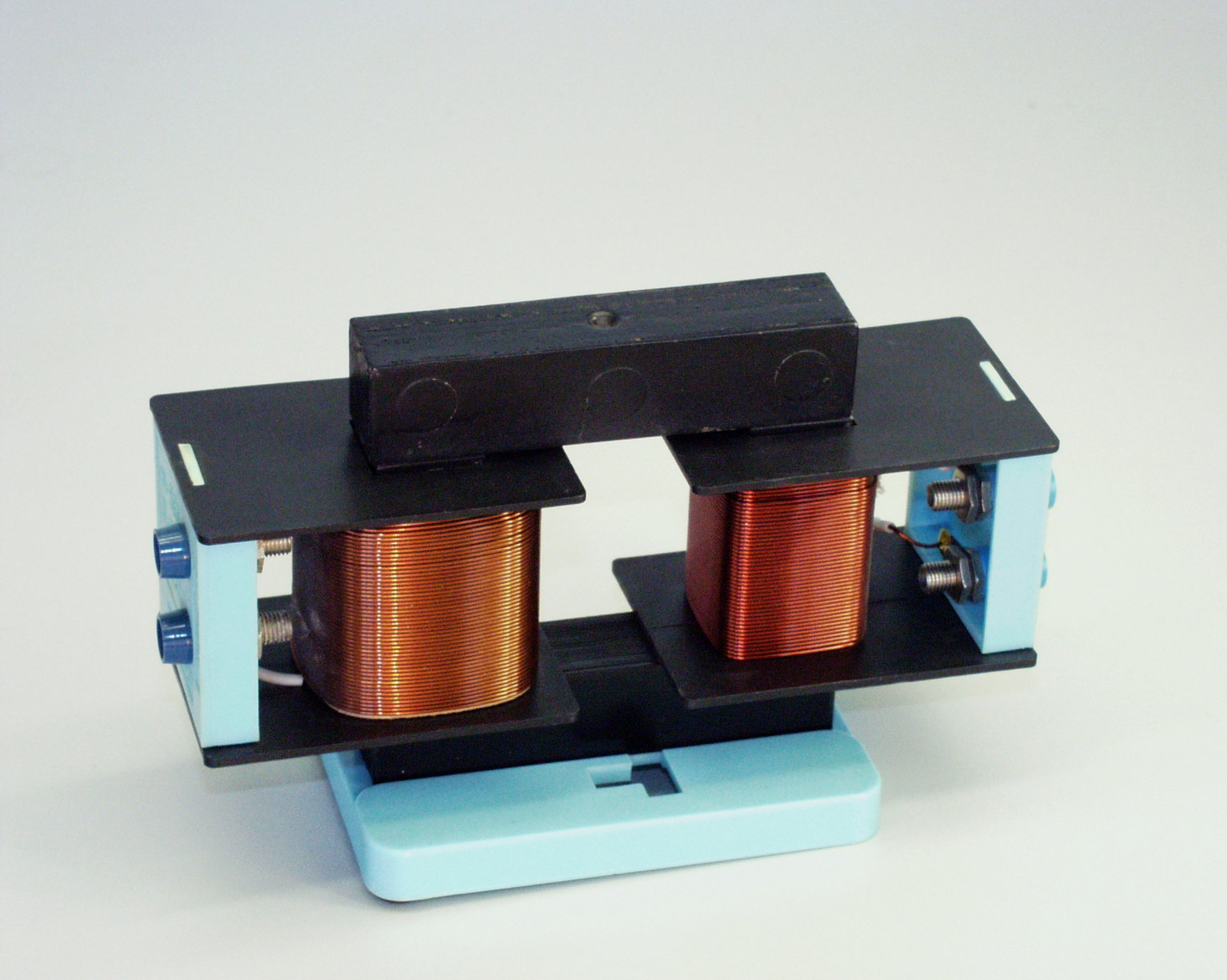 Demountable transformer (4.)